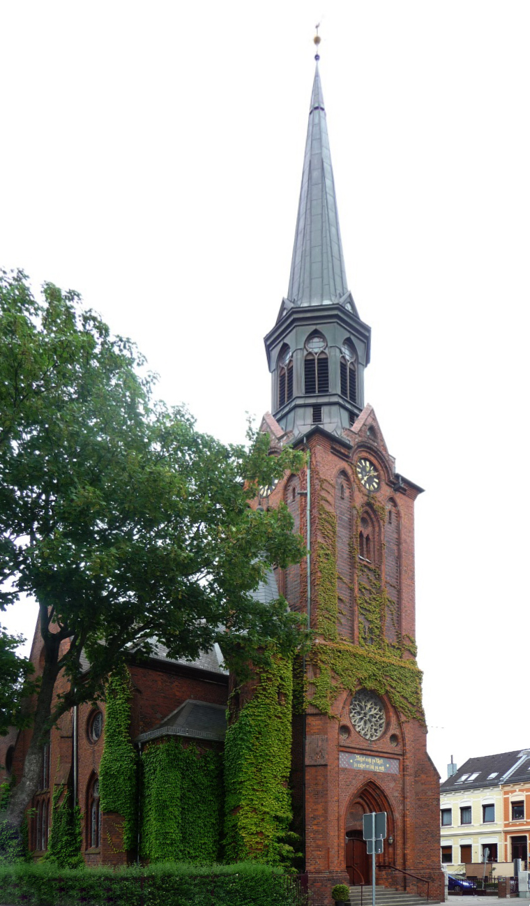 Church St. Jakobi in Bremen-Neustadt